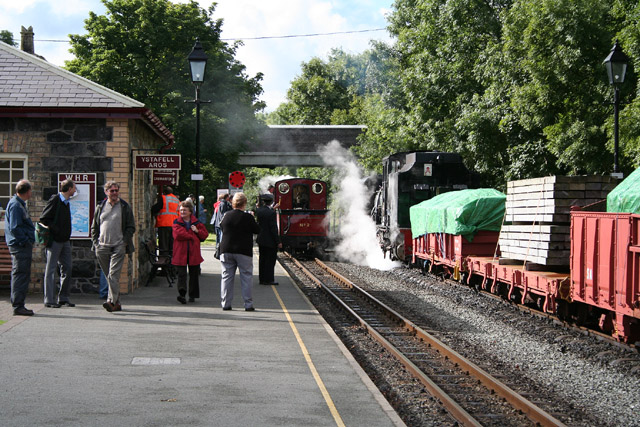 Llanwnda: the Welsh Highland Railway at Dinas